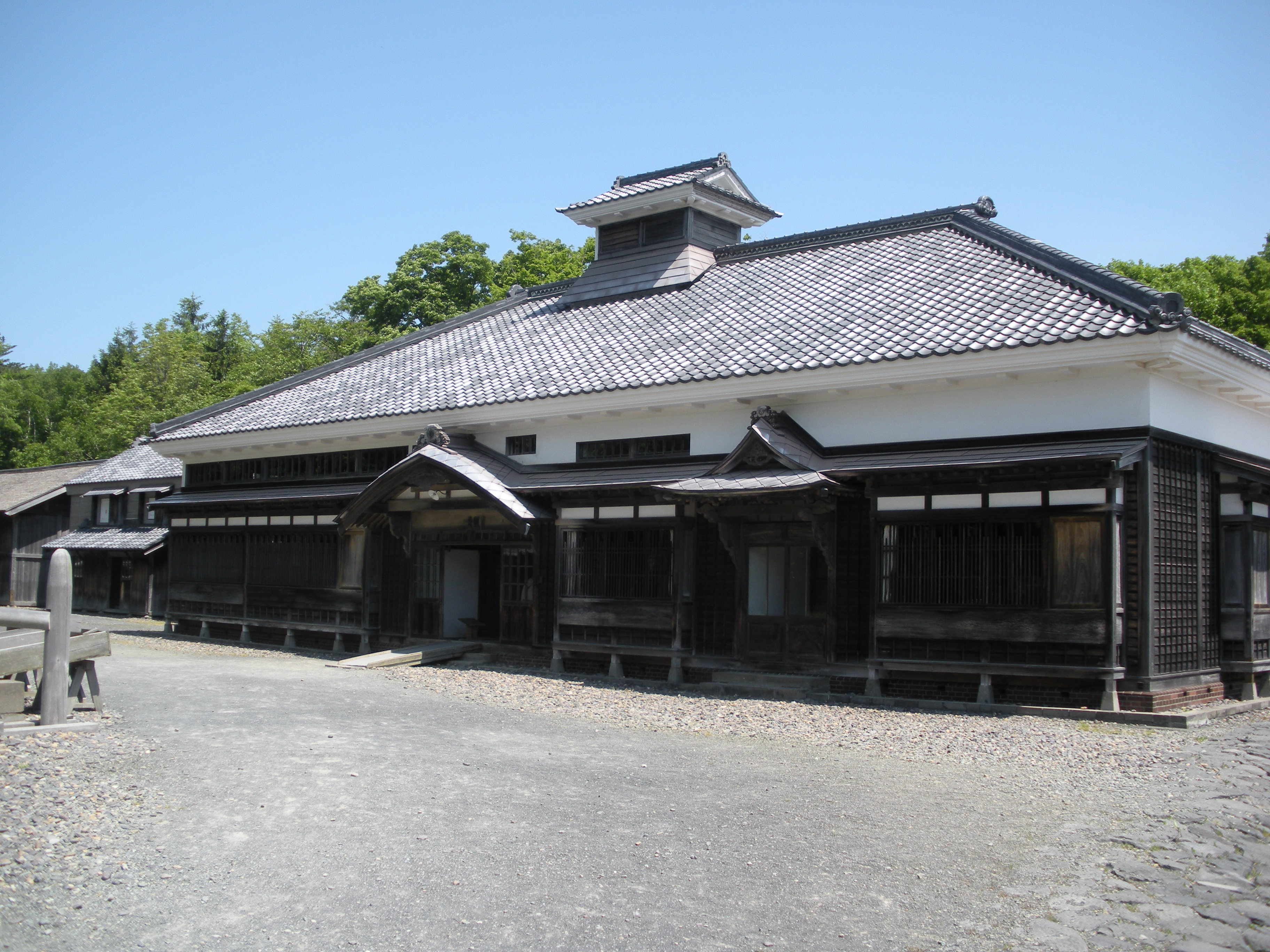 Nishin-Goten (Pacific herring Fishermans house) Historical Village of Hokkaidō. Atsubetsuchō-konopporo, Atsubetsu-ku, Sapporo, Japan. Atsubetsu-ku, Sapporo